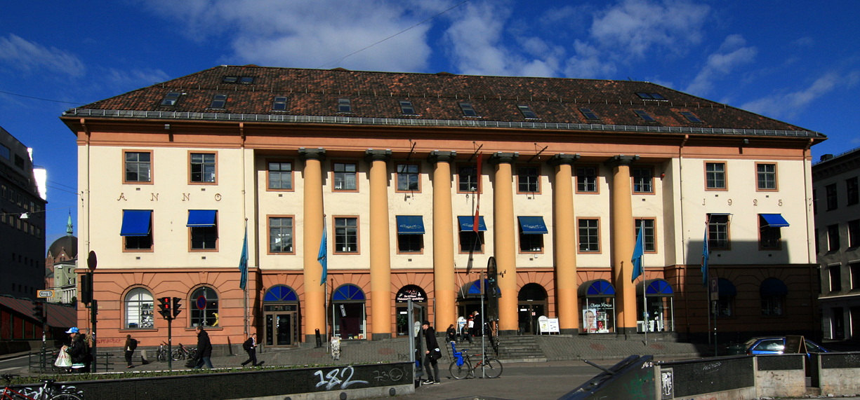 Torggata bad, Oslo, Norway. Built 1922-1928. Architects: Christian Morgenstierne and Arne Eide.